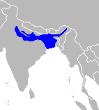 Glyphis gangeticus inhabits the Ganges-Hooghly River system.